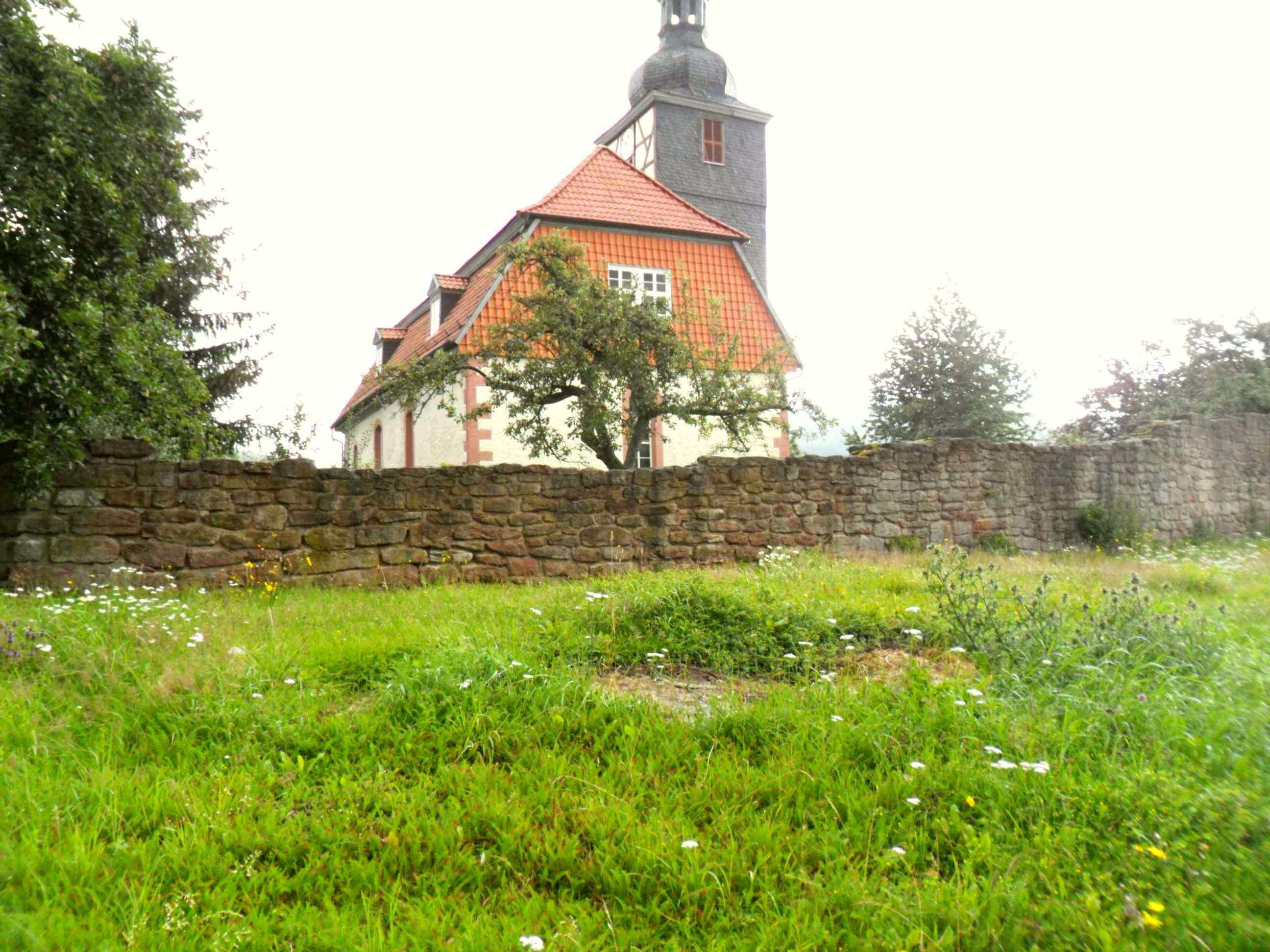 Sünna (Church-Castle); District of Wartburg; Federal State (and Free State) of Thuringia; Germany Build in the late 14th century with parts of the Romanesque ancestor; later changes; of special interest: remnants of the curtain with loopholes in breast-high level.